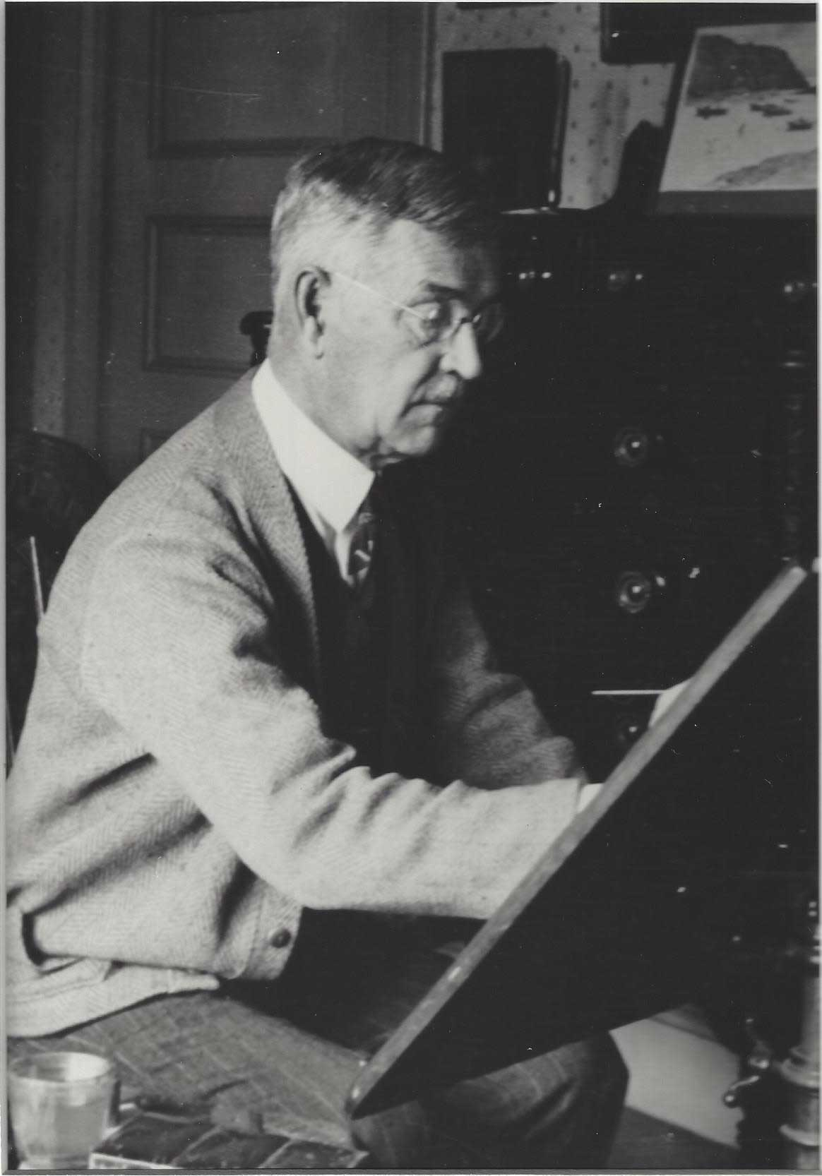 Sears Gallagher drawing at easel